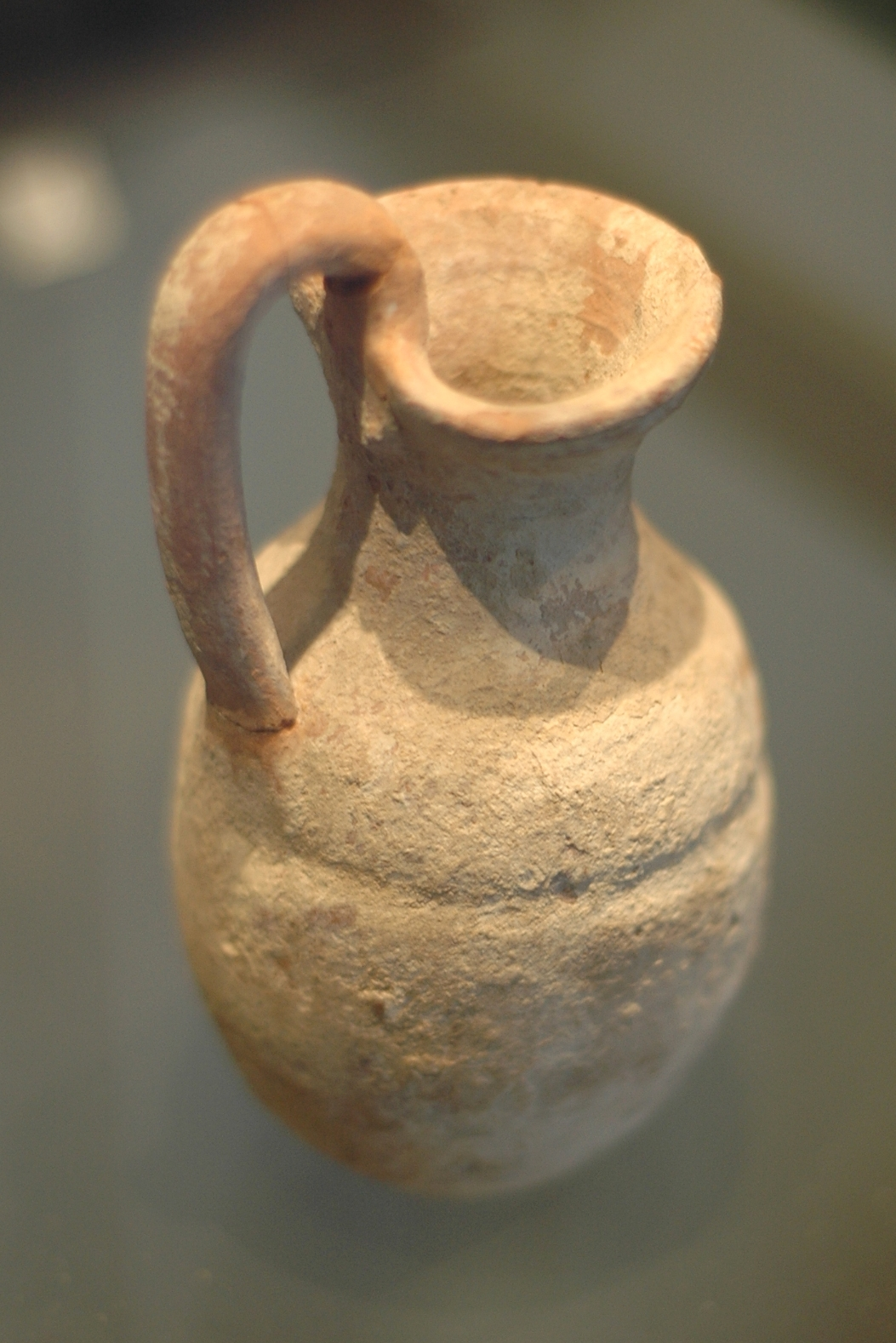 Small terracotta jug, IIIrd century BC/CE. Found in Kish, Mesopotamia.